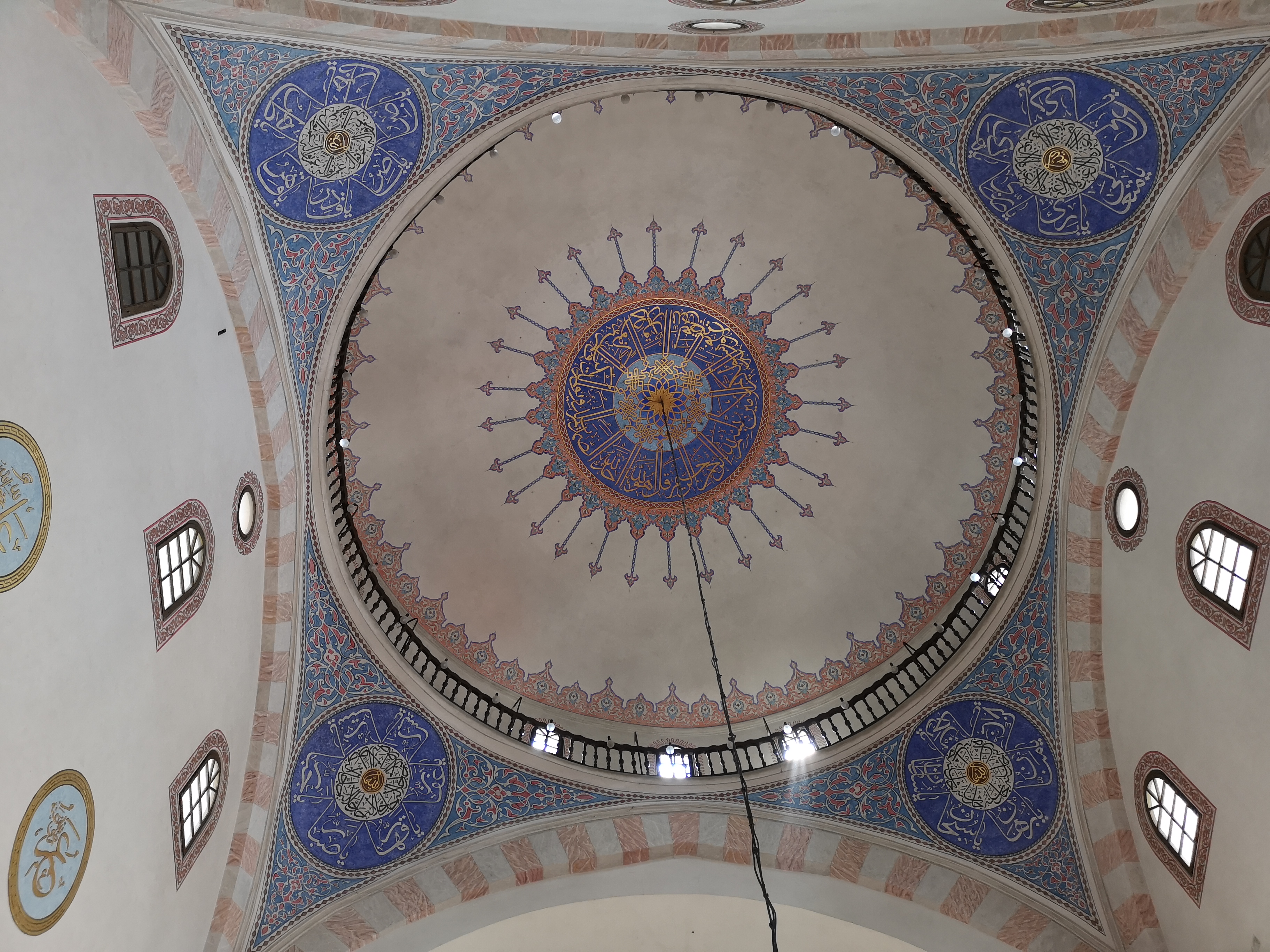 Interior dome of Gazi Husrev-beg Mosque